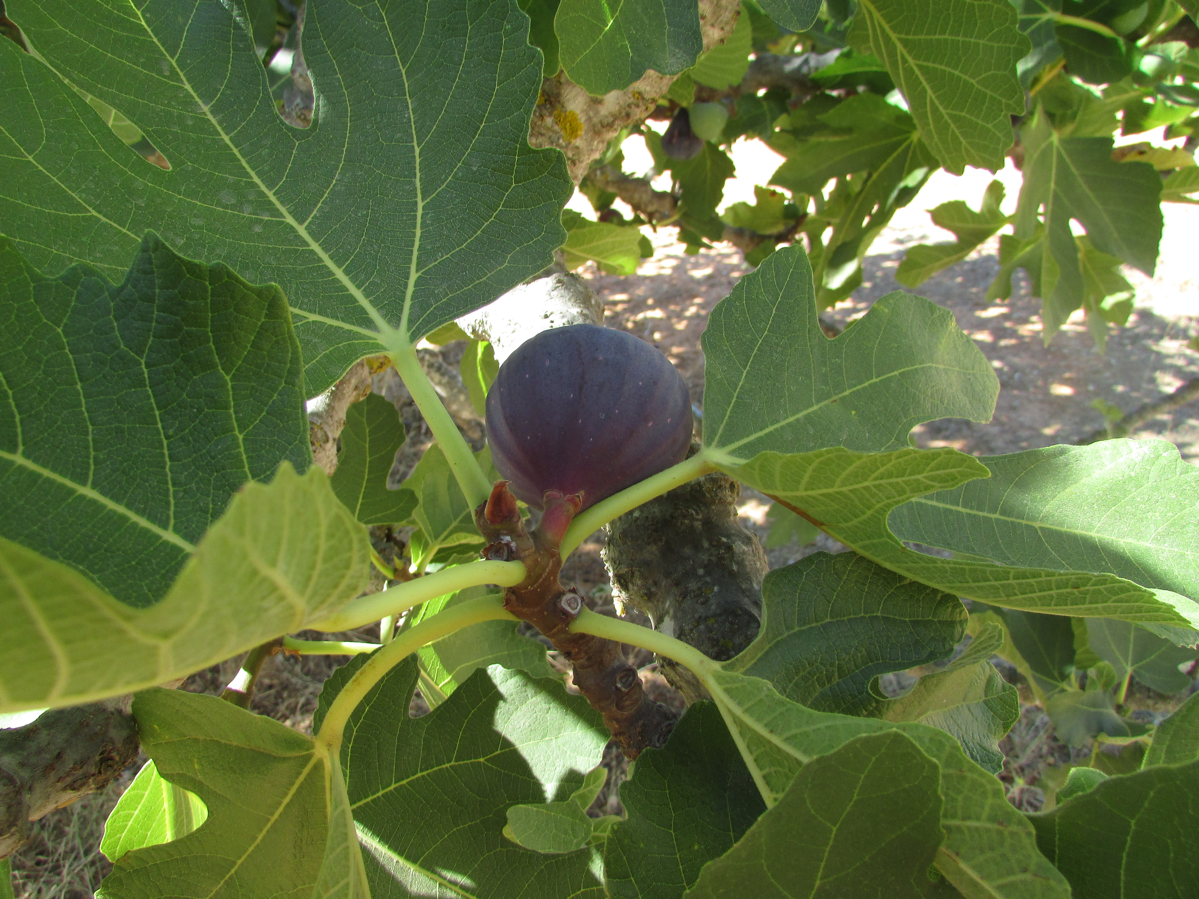 A example of the ripe fruit of a fig tree out in the countryside in the neighbourhood of Pinhal within the city of Albufeira, Algarve, Portugal.